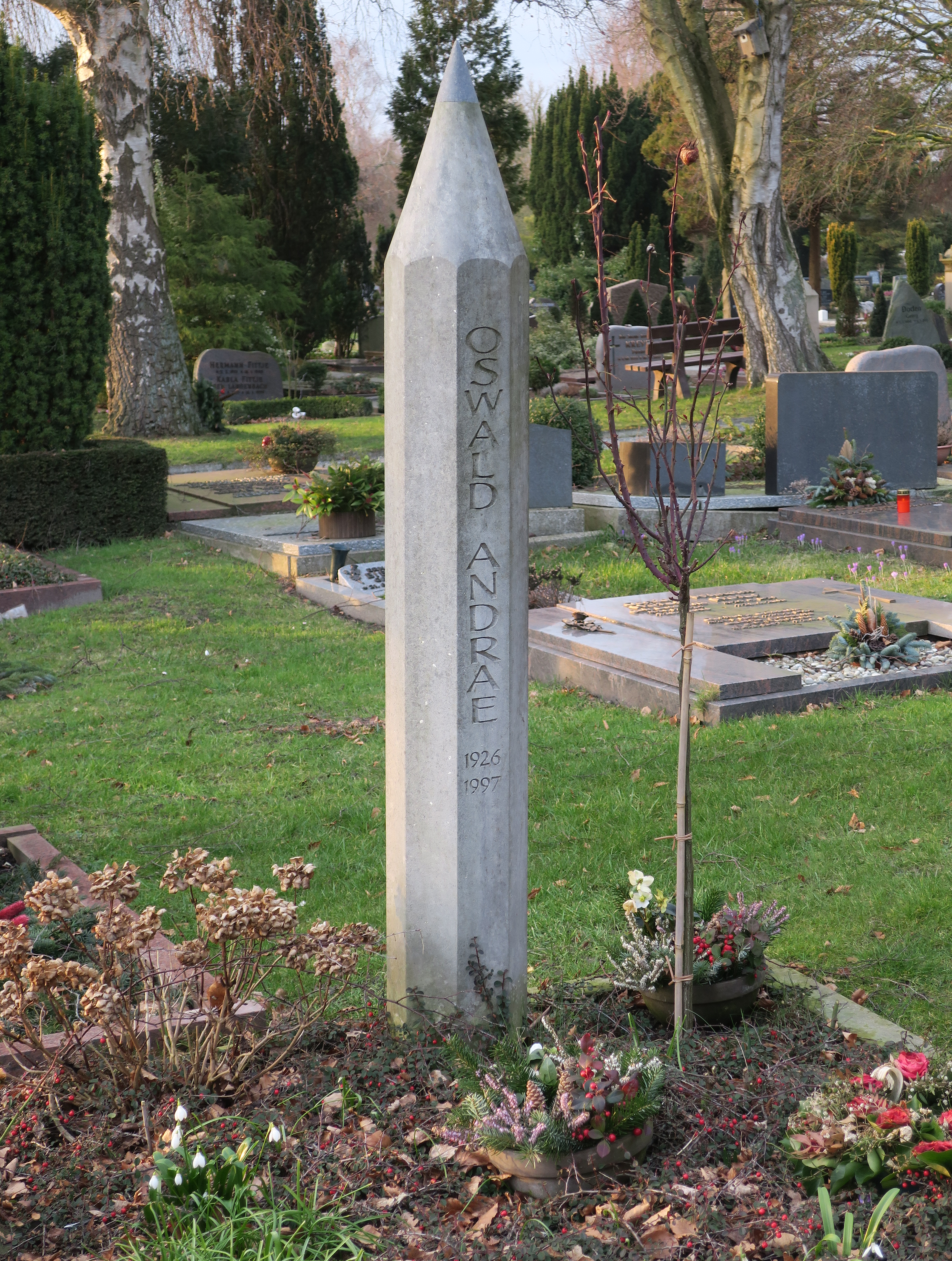 The burial place, which is designed in the form of a pencil, is reminiscent of the German writer Oswald Andrae (1926-1997). It is located in the cemetery in Jever.